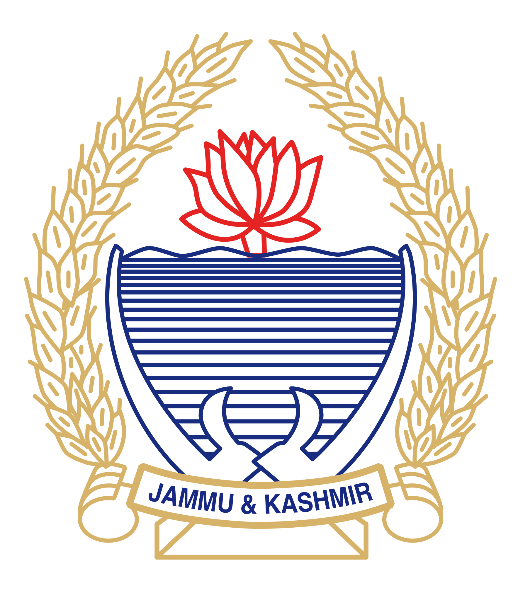 Official seal of the Government of Jammu and Kashmir, India.